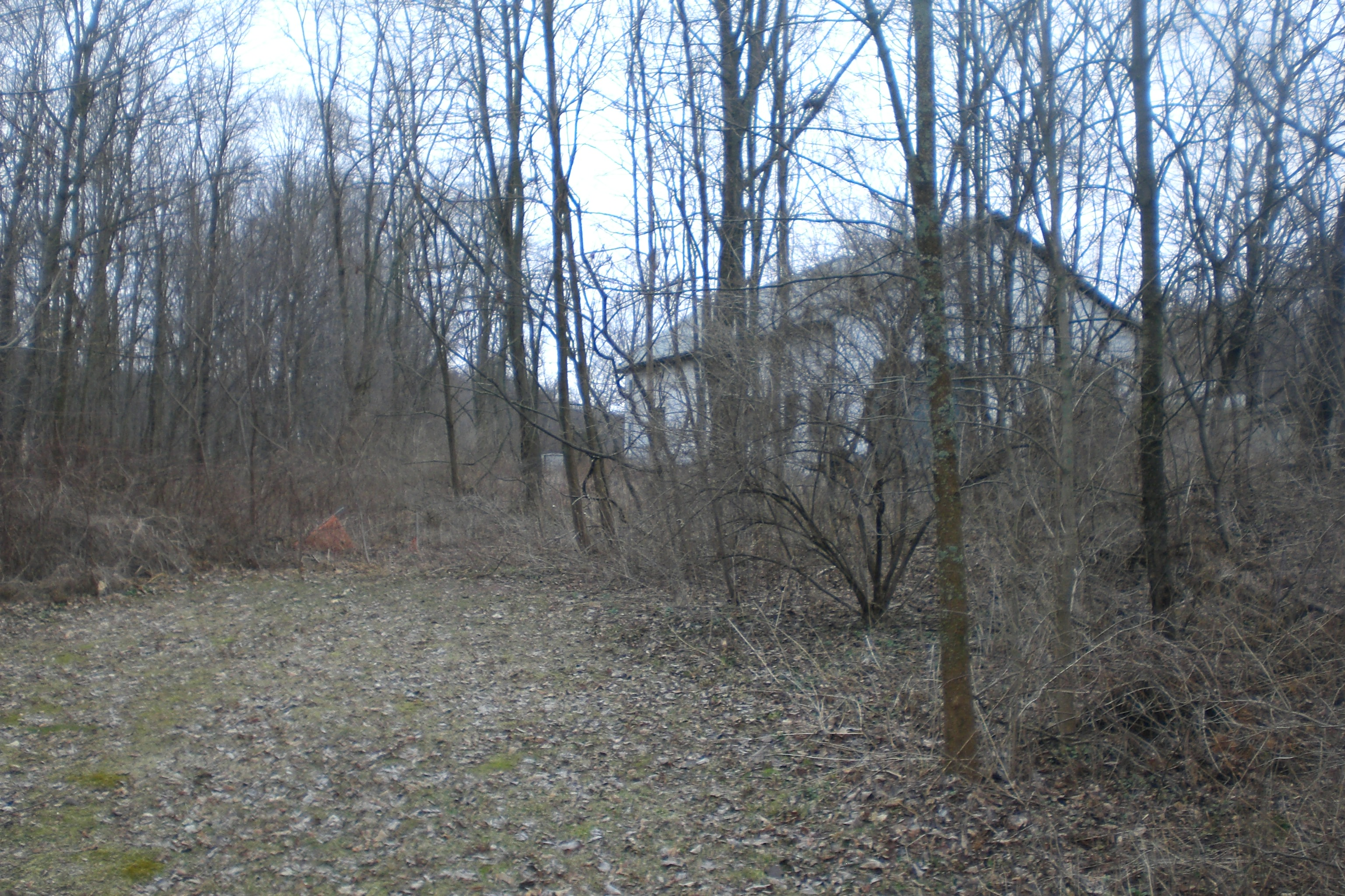 The building which was the former Coleman's station